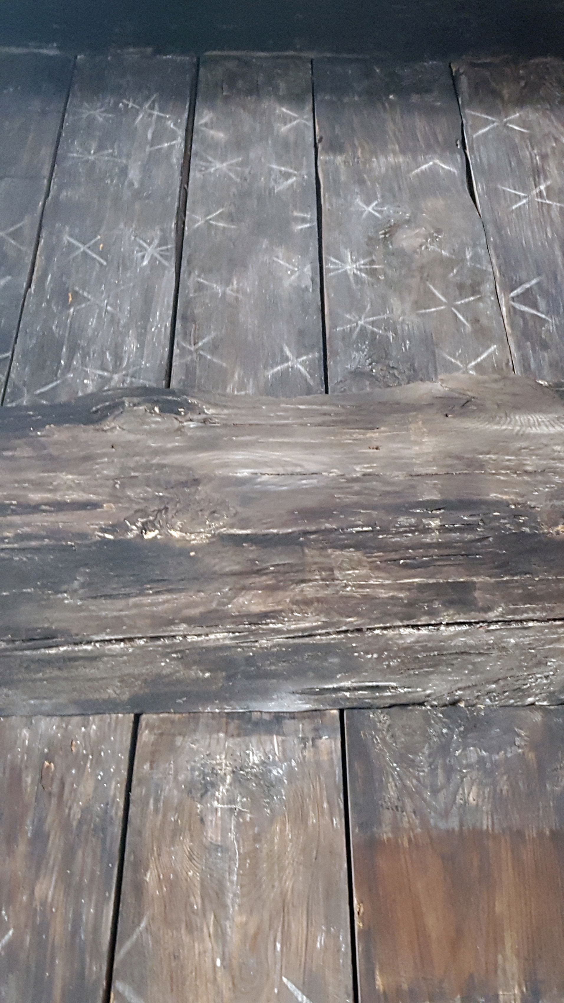 Stars, carved and painted, in the joists of ceiling on second floor of The Gothic House in Brandenburg on Havel, made in the year of uprising the building, 1452.